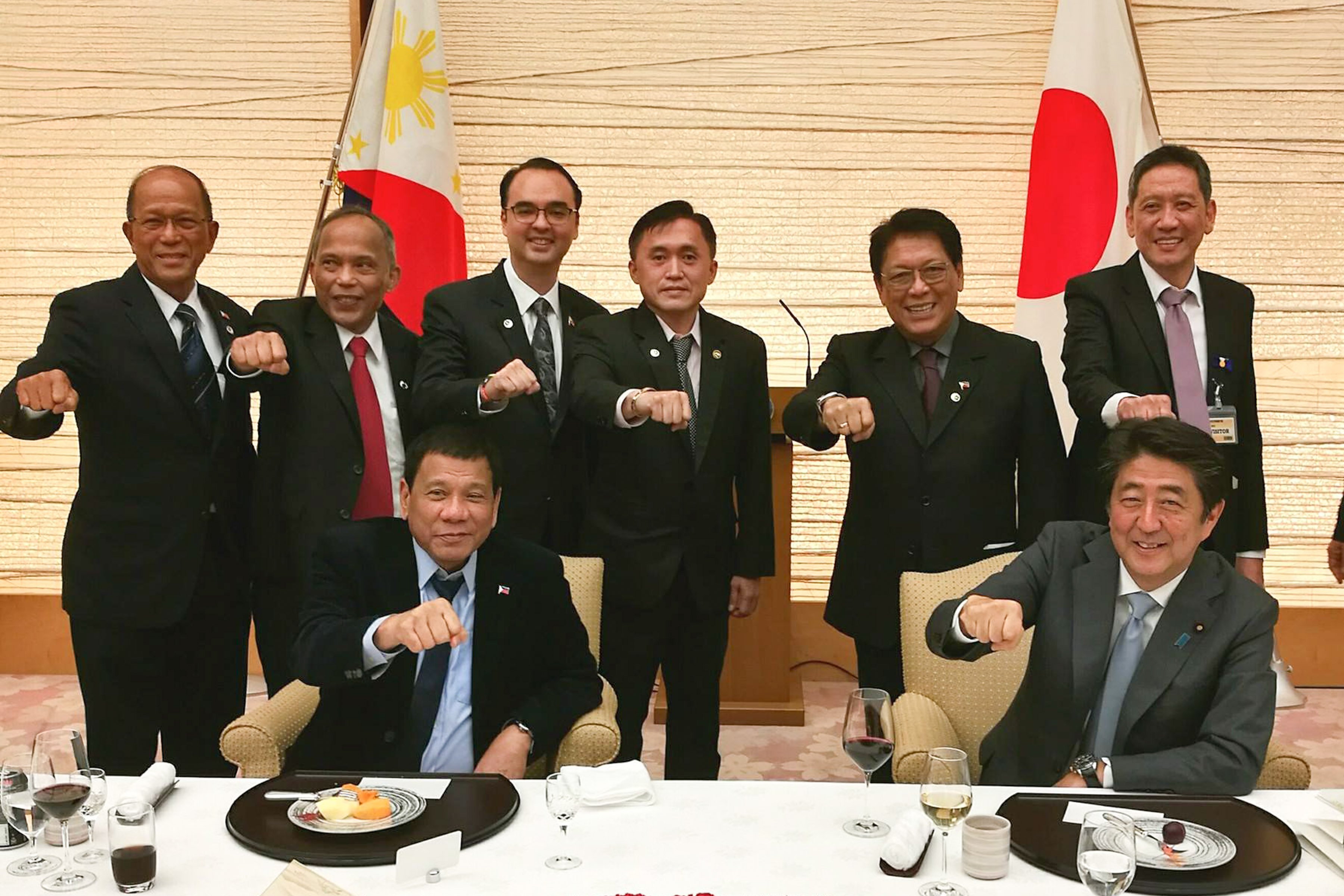 President Rodrigo Duterte with Prime Minister Shinzō Abe and members of the Philippine delegation during the former's visit to Japan in October 2016. The official description is as follows: “ President Rodrigo Duterte and Japanese Prime Minister Shinzō Abe, along with the Philippine delegation, gesture while having their picture taken during the State Banquet at the Prime Minister's Official Residence in Japan on October 26. (ALBERT ALCAIN/Presidential Photo) ”